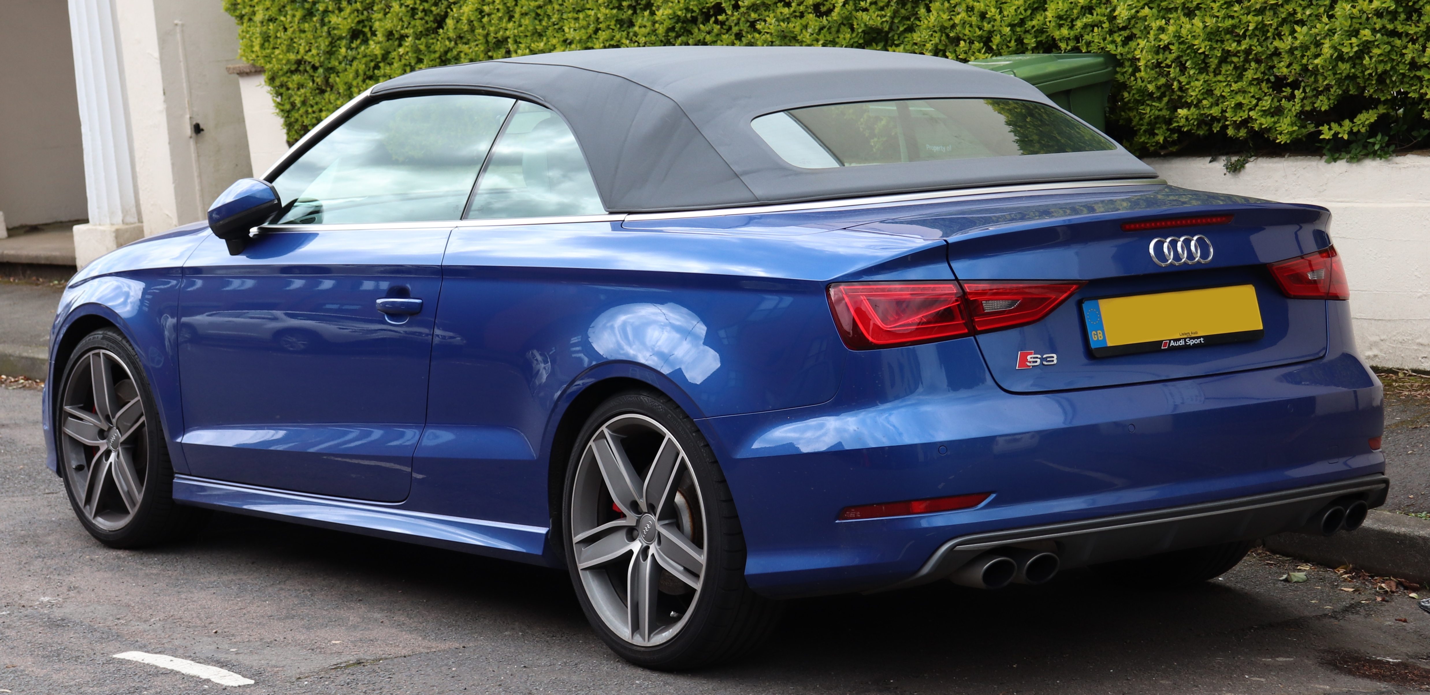 2015 Audi S3 Quattro S-A 2.0 Rear Taken in Leamington Spa